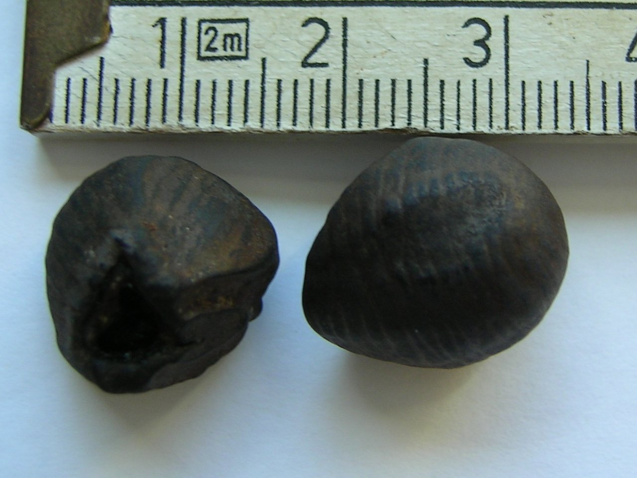 Two Banana Seeds (metric unit on the ruler)